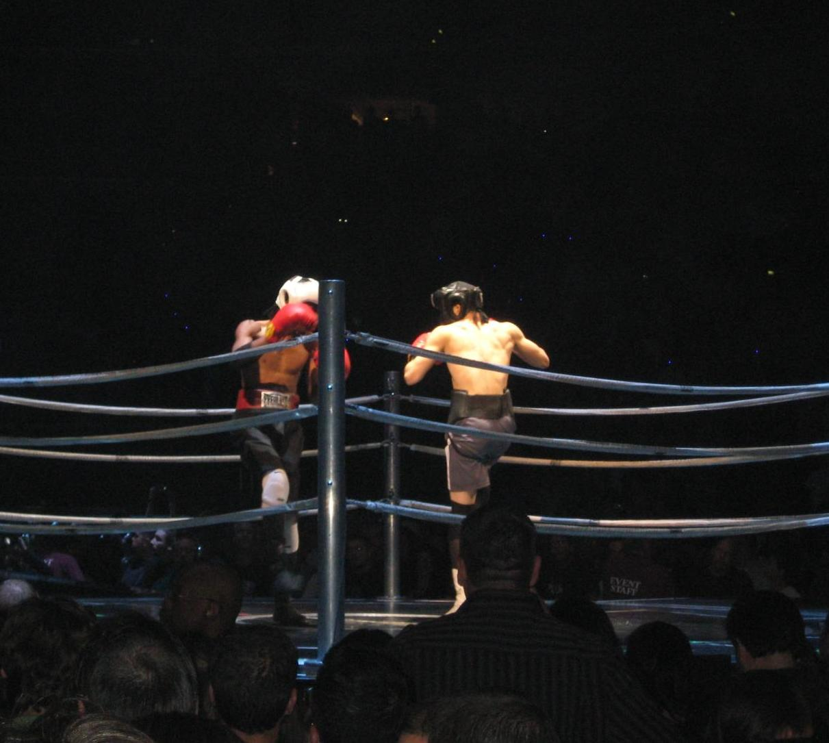 The performance of "Die Another Day", on the Sticky & Sweet Tour. Two boxers appeared in a ring of the stage and fought till death, as a remix of the song played in the background. Photo taken on November 20, 2008 in Marconi Plaza, Philadelphia, PA, US, using a Canon PowerShot SD750.